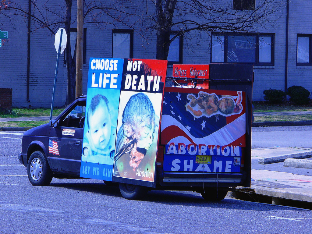 This van was parked outside of the Women's Clinic that was bombed by Eric Rudolph in the mid-90's. It's still open, and obviously still draws protesters. It had broken down though, and the woman who owned it, couldn't get anyone to let her use their phone to call for a tow.